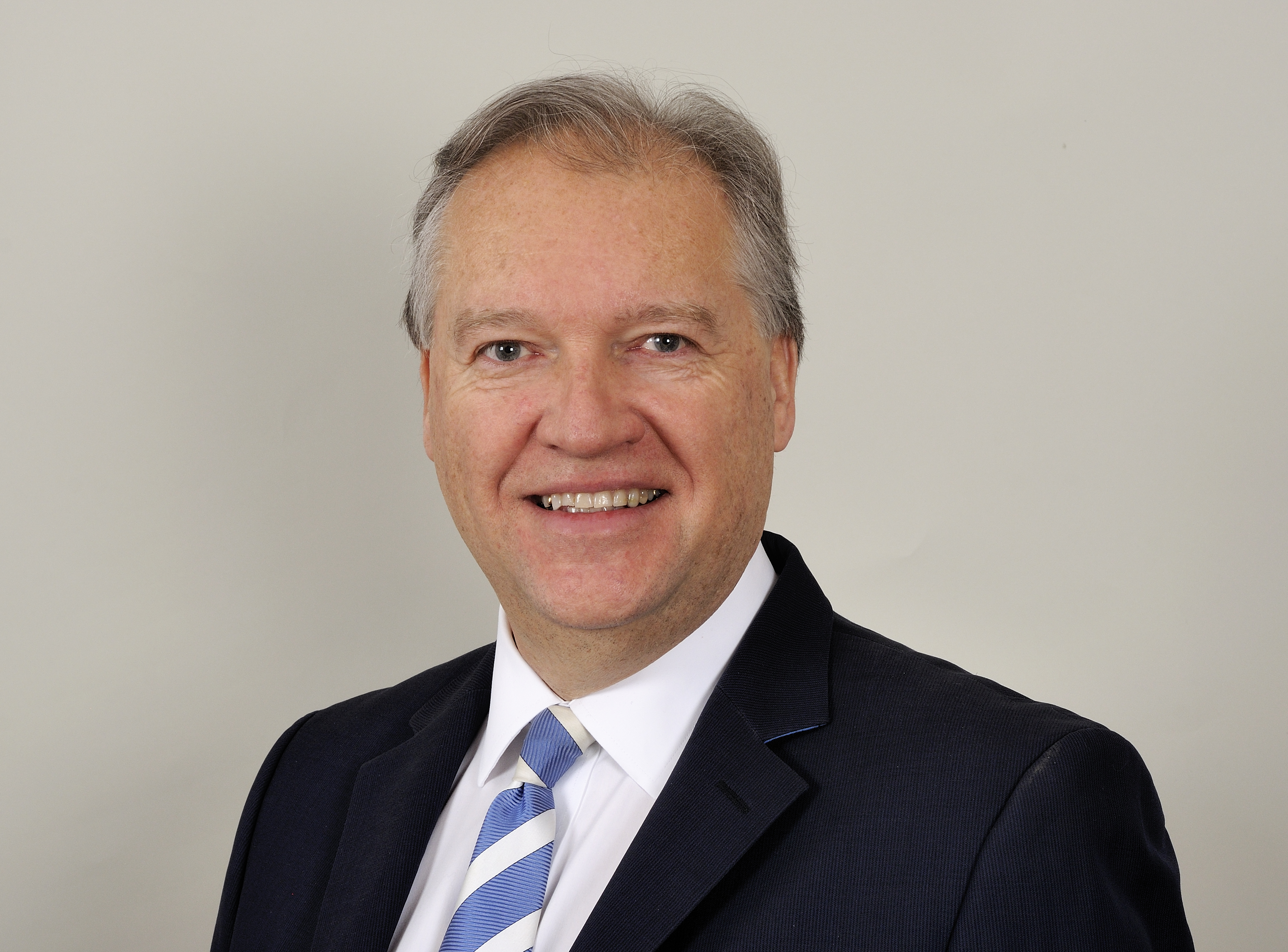 Ulrich Caspar, Hessian politican (CDU) and member of the Landtag of Hesse.